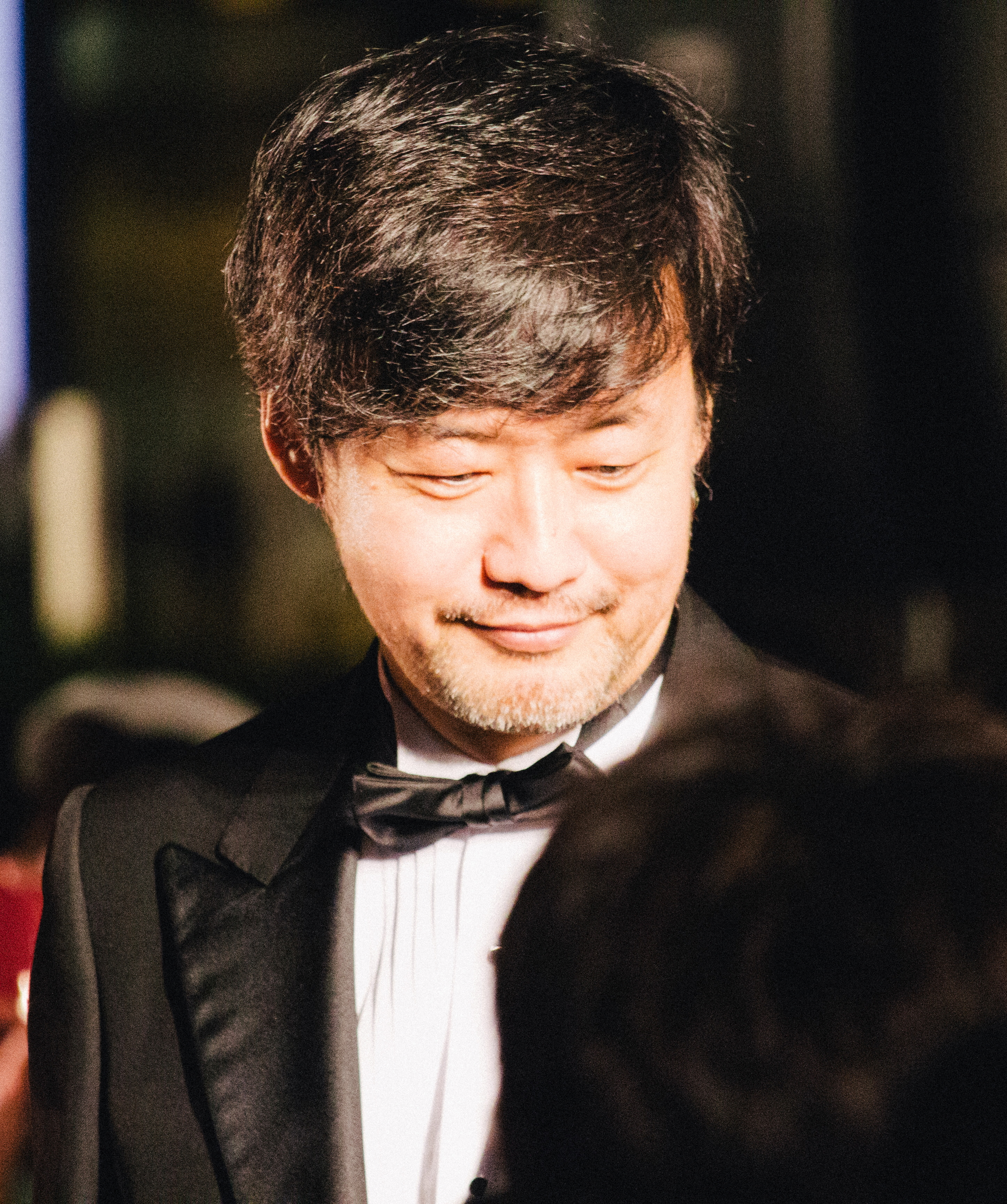 27th Tokyo International Film Festival: Yamazaki Takashi from Parasyte